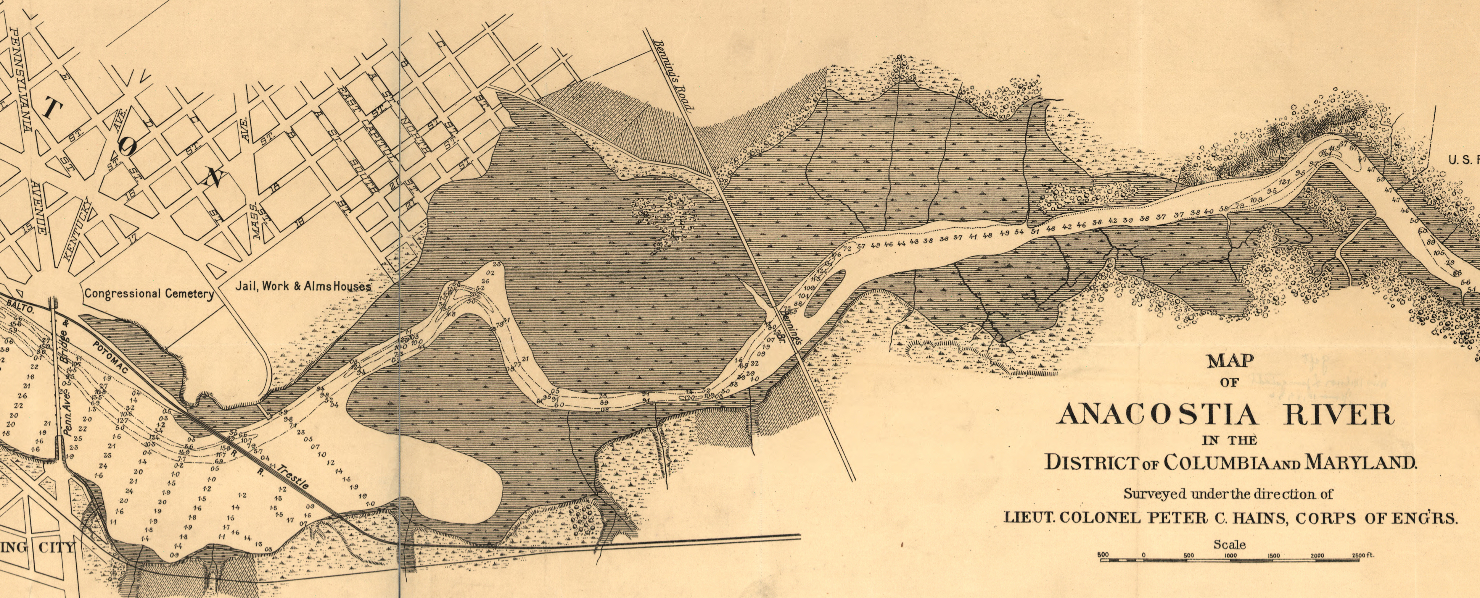 Middle porton of a map of the Anacostia River in the District of Columbia, surveyed and created on October 24, 1891, by Lieutenant Colonel Peter C. Hains, U.S. Army Corps of Engineers. Note the location of the "Anacostia flats," the tidal marshes due to be filled in by the Corps of Engineers.